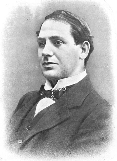 Portrait Picture